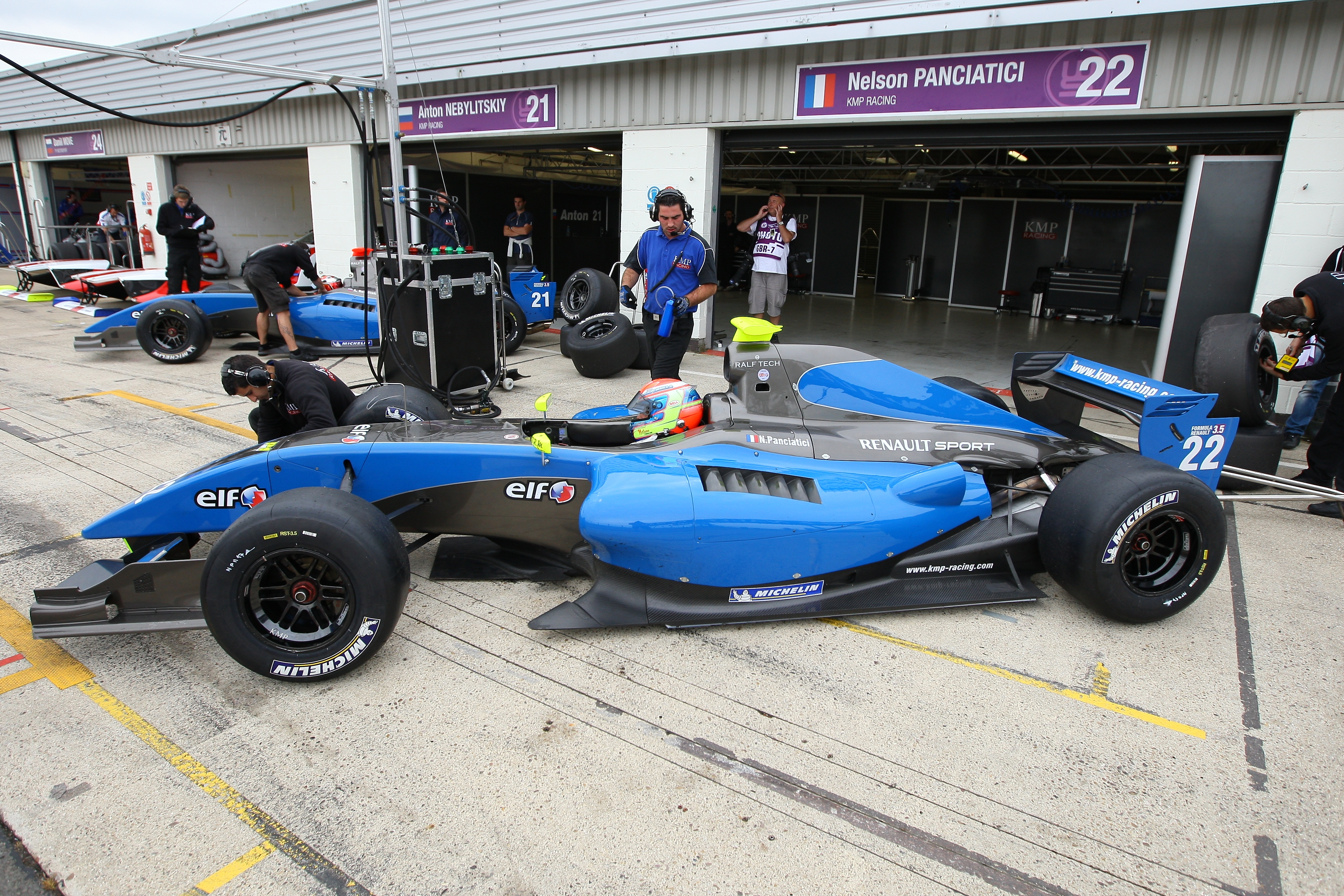 Nelson Panciatici with KMP Racing in WSR 2011